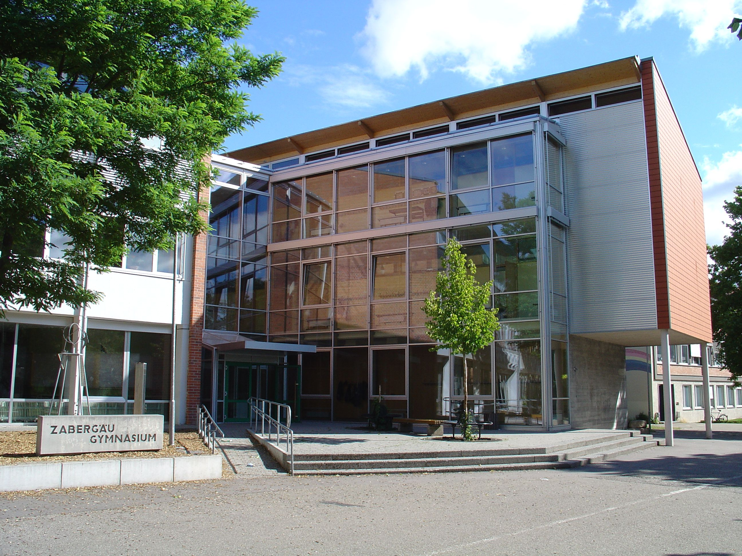 Front of the Zabergäu-Gymnasium Brackenheim